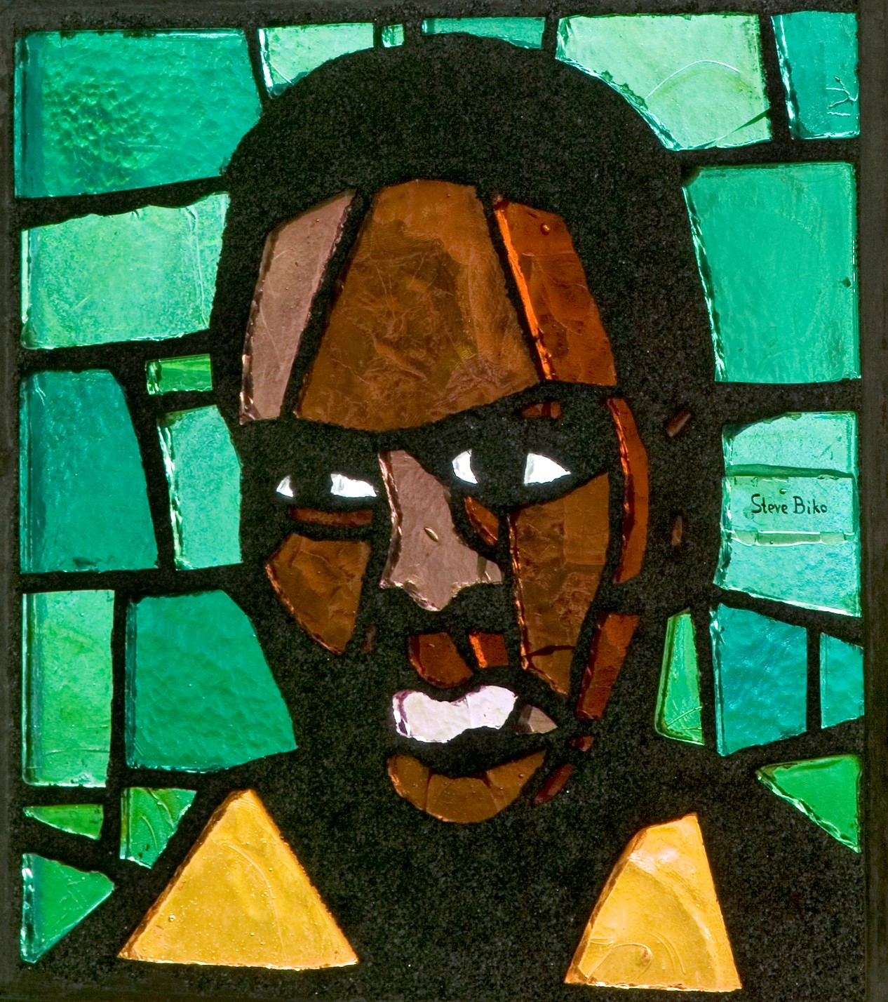 Steve Biko. Stained glass window by Daan Wildschut in the Saint Anna Church, Heerlen (the Netherlands), ca. 1976. One of 12 modern saints and martyrs.